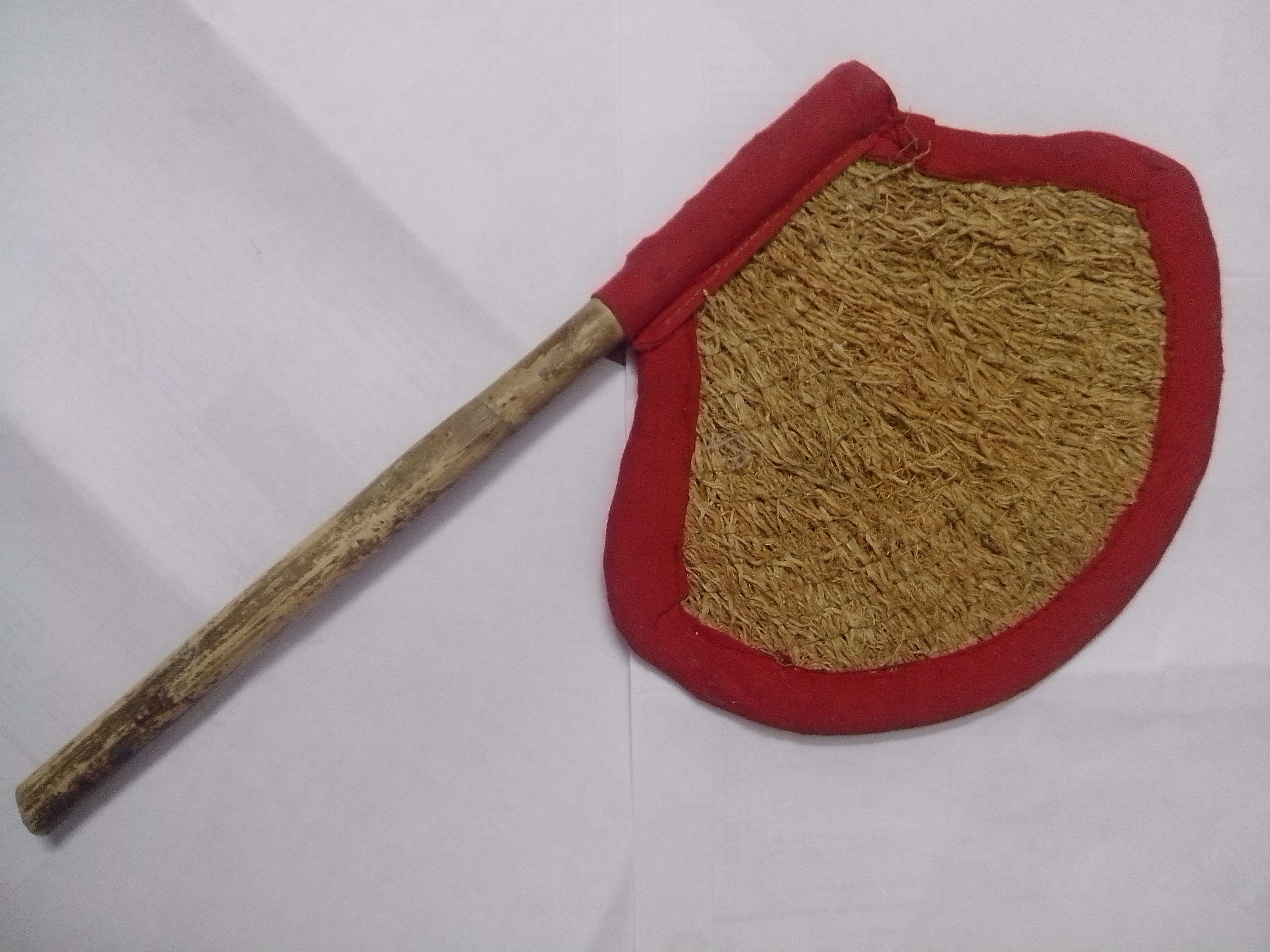 Hand Fan made of cuscus (Vetti Vaer) plant